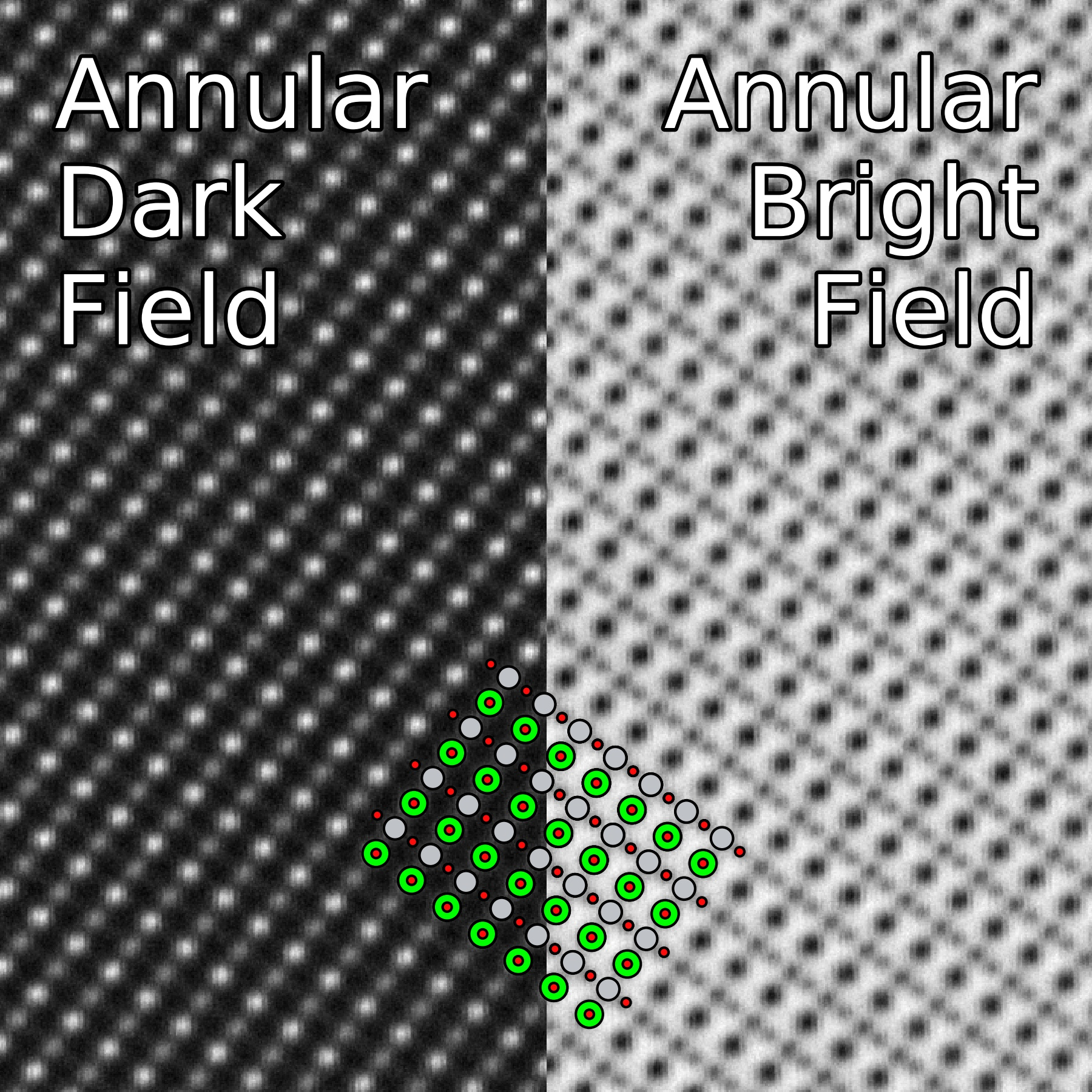 Atomic resolution scanning transmission electron microscopy imaging of a perovskite oxide material, comparing two different signals: annular dark field and annular bright field. The electron beam is parallel to the [110] direction. Overlay: strontium (green), titanium (grey), oxygen (red).